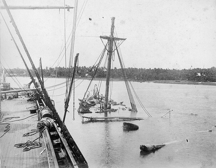 View from the wrecked USS Trenton, with USS Vandalia sunk alongside. Taken in Apia Harbor, Upolu, Samoa, during the salvage of the ships' armament and equipment. Lines between Vandalia's foremast and Trenton's deck were used to save men clinging to Vandalia's rigging during the storm. Original caption: “Photo # NH 97996 Looking from USS Trenton over USS Vandalia, after the Samoa hurricane, 1889”